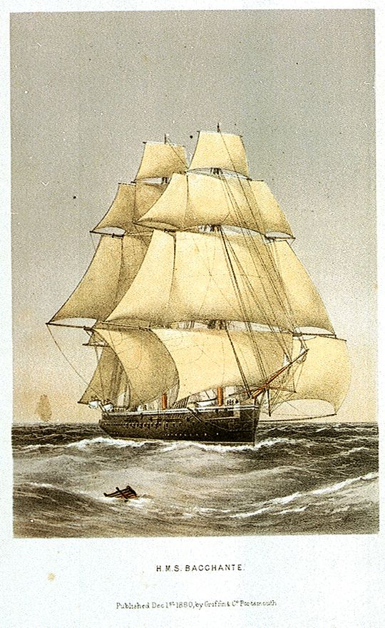 The screw corvette H.M.S. Bacchante under sail.